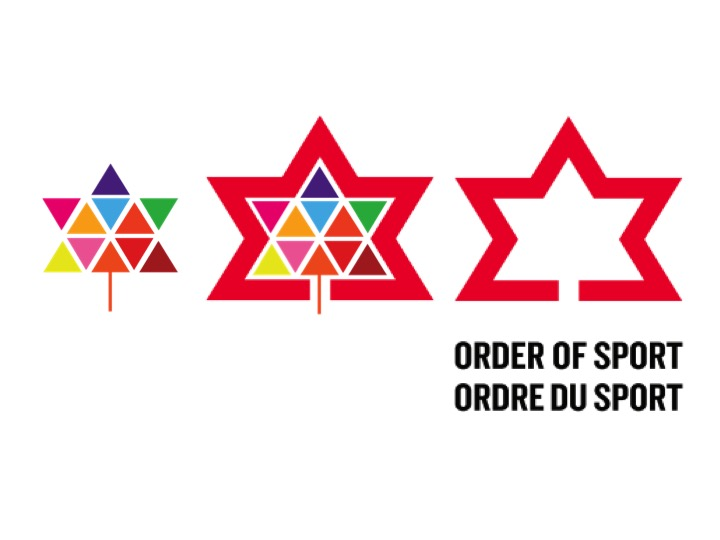 The Order of Sport symbol was introduced in 2019 as a way to flag Canada's sports champions and celebrate the beautiful and growing relationship between Canadian sports champions and Canadian communities.